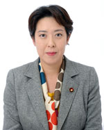 Masayo Tanabu was the Parliamentary Secretary of Agriculture, Forestry and Fisheries on January, 2011. (For terms of use, see リンク、著作権等について | 首相官邸ホームページ.)